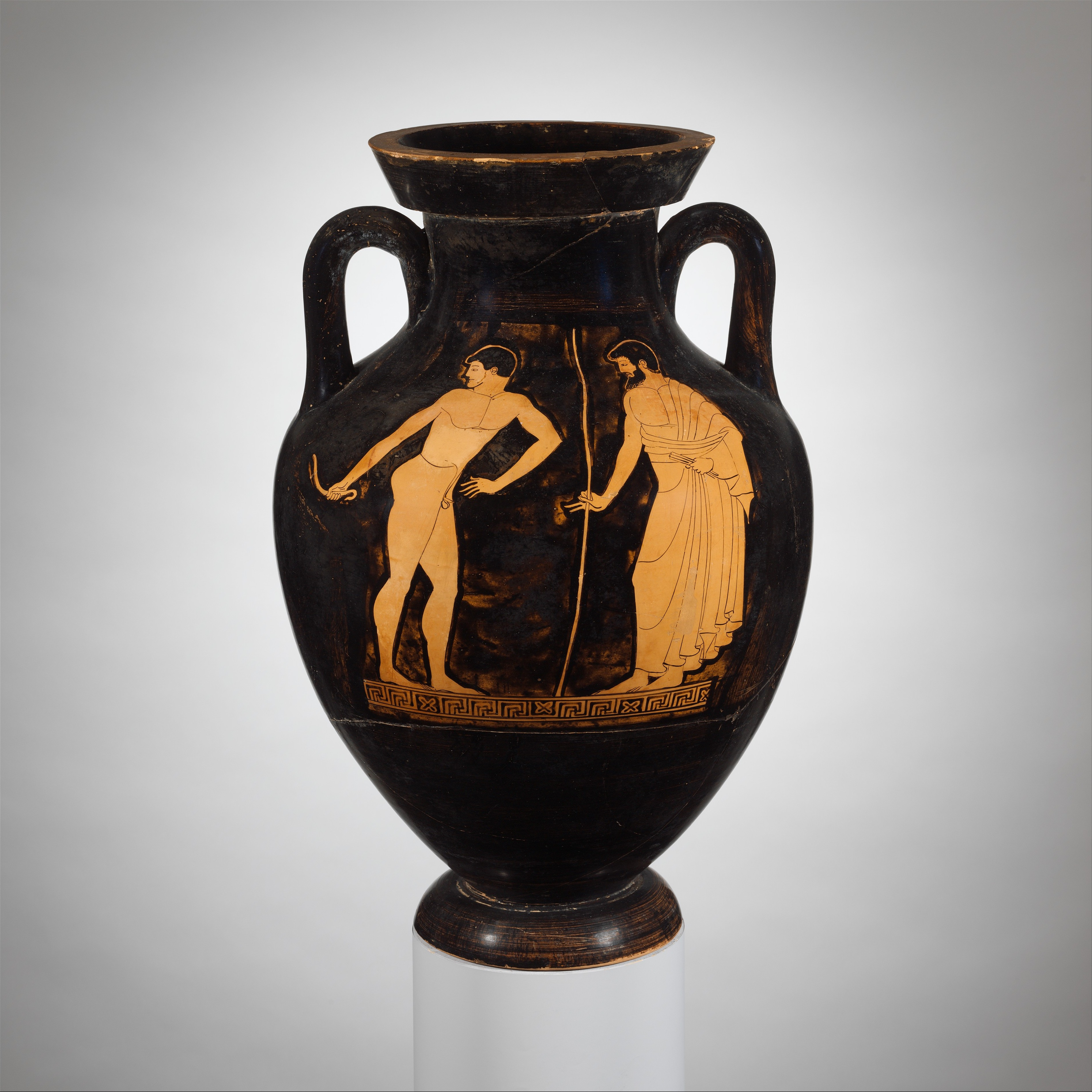 Greek, Attic; Amphora, Type B; Vases; Obverse, Apollo and Artemis flanking an altar; Reverse, athlete and trainer